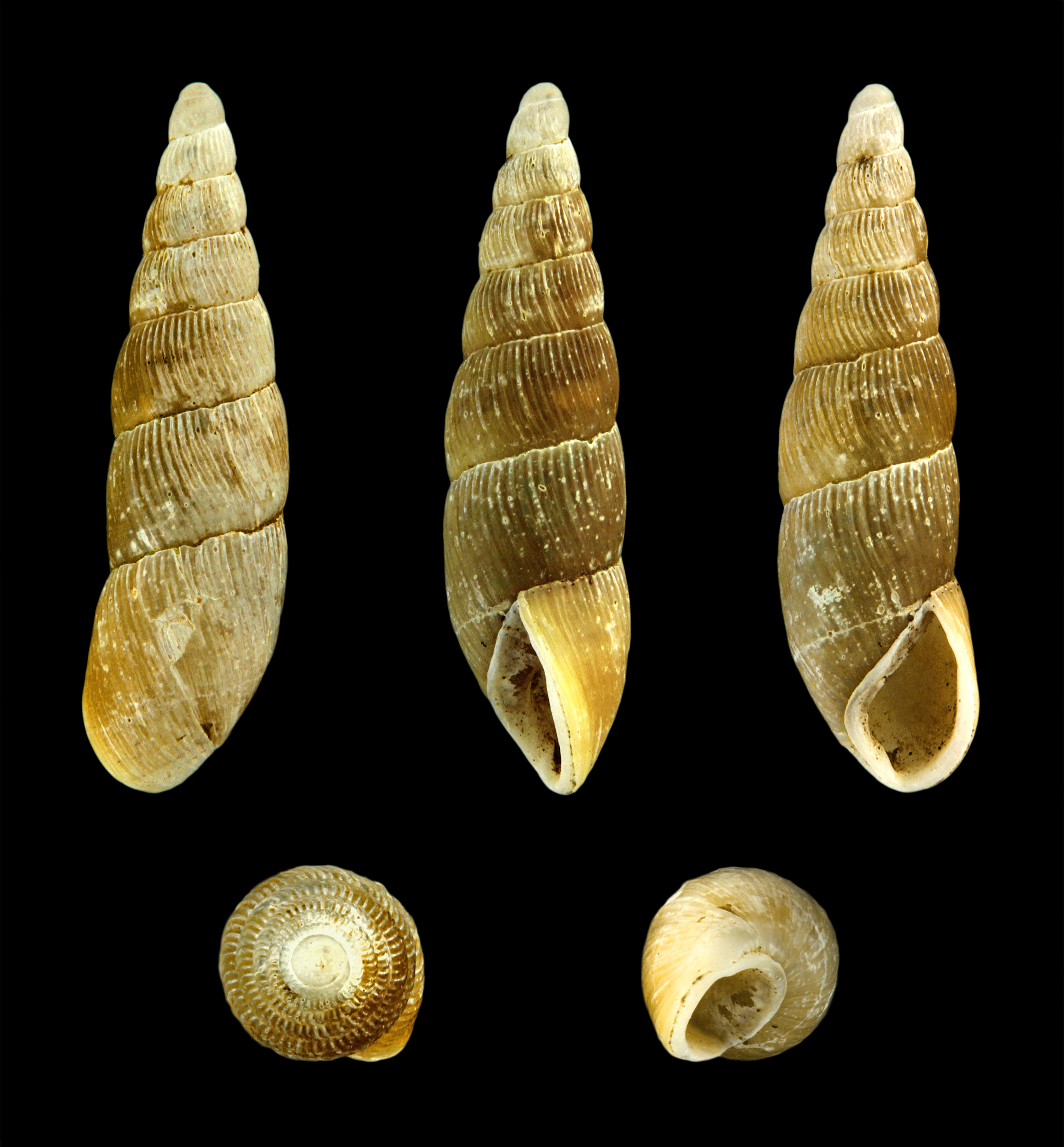 Length 1.1 cm; Originating from the summit of the Pico de la Zarza, 806 m about sea level, Jandia, Fuerteventura, Spain 28°6′6.51″N 14°21′20.15″W / 28.1018083°N 14.3555972°W; Shell of own collection, therefore not geocoded. Dorsal, lateral (right side), ventral, back, and front view.